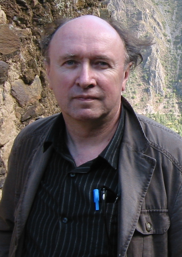 French writer and journalist Roger Faligot in 2009, standing in the Inca city of Cuzco (Peru), on the traces of French explorer Pierre-Olivier Malherbe, for his book "Les Sept Portes du monde" (The Seven Doors of the World)